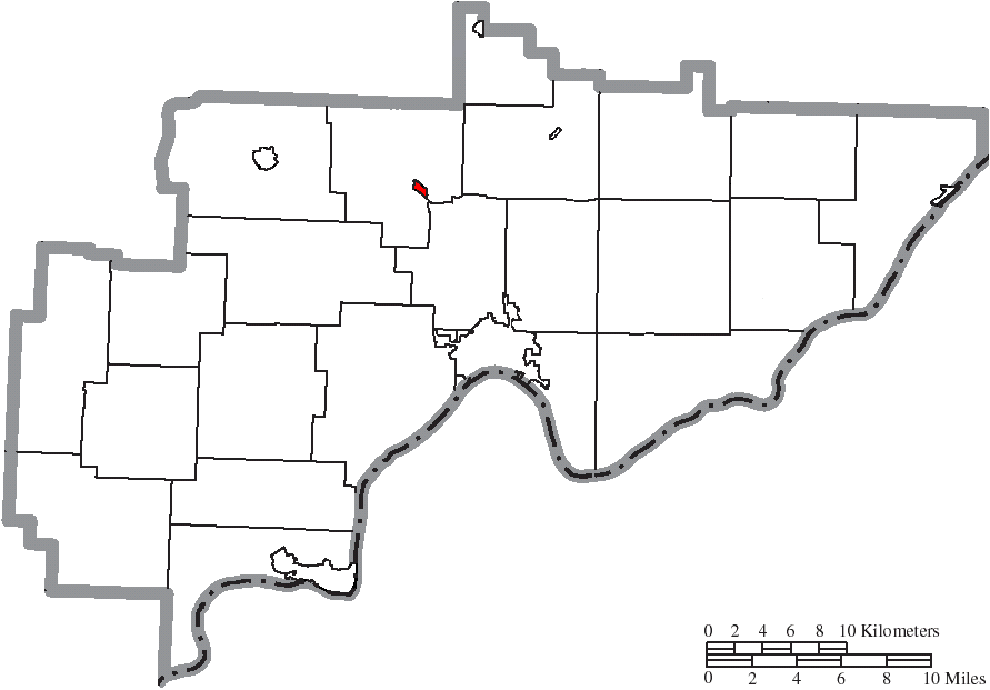 Map of the municipal and township boundaries of Washington County, Ohio, United States, as of the 2000 census, with the location of the village of Lowell highlighted. Township borders are shown only in unincorporated areas in order to differentiate incorporated and unincorporated areas more clearly.